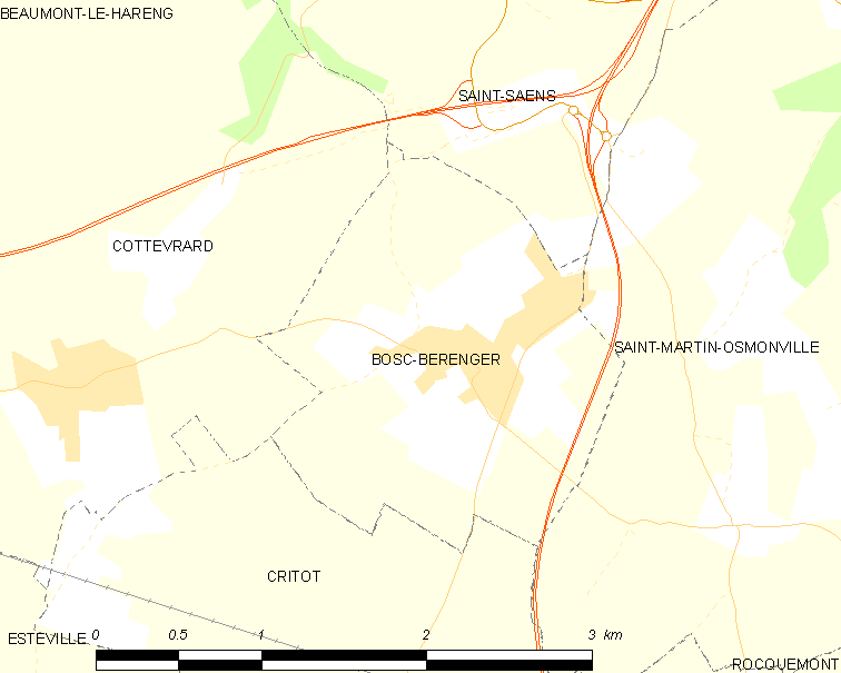 Map of French municipality Bosc-Bérenger